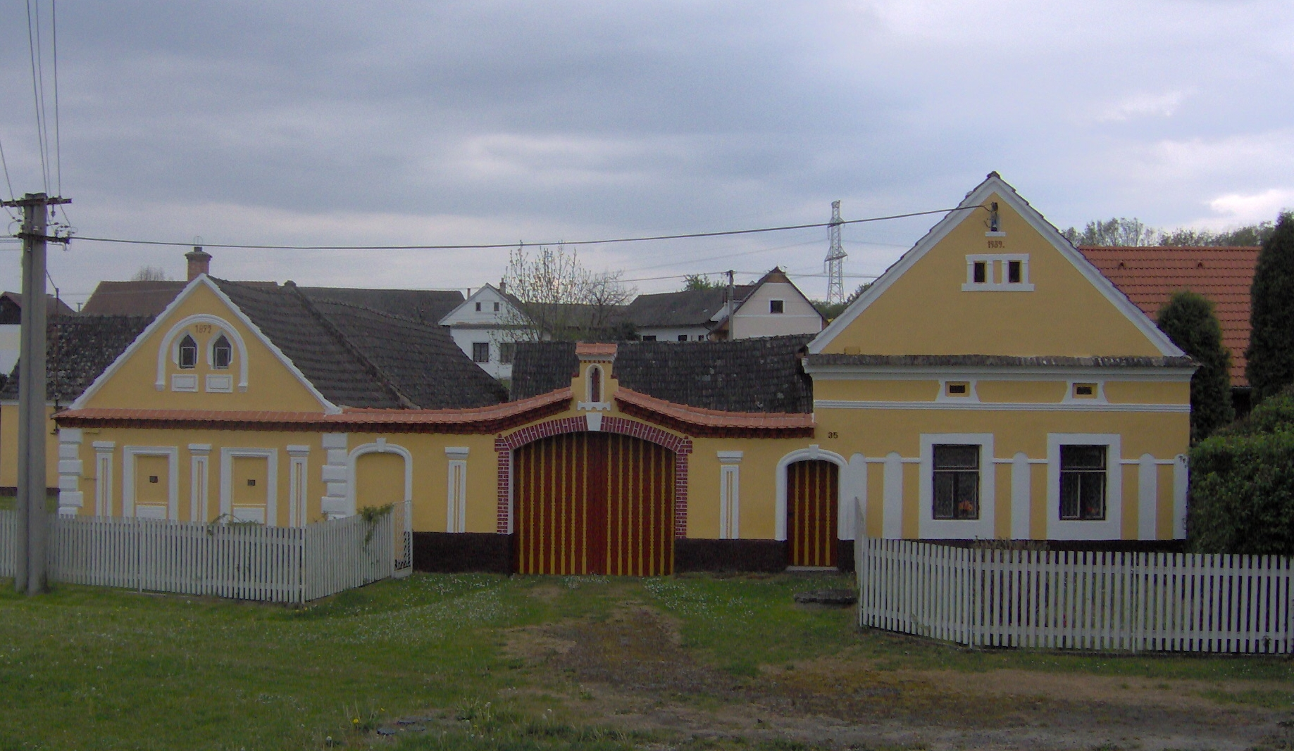 House in Pořežany, part of Žimutice, České Budějovice District, Czech Republic